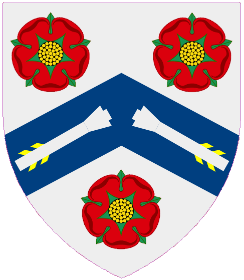 Shield of arms of The Lord Hacking